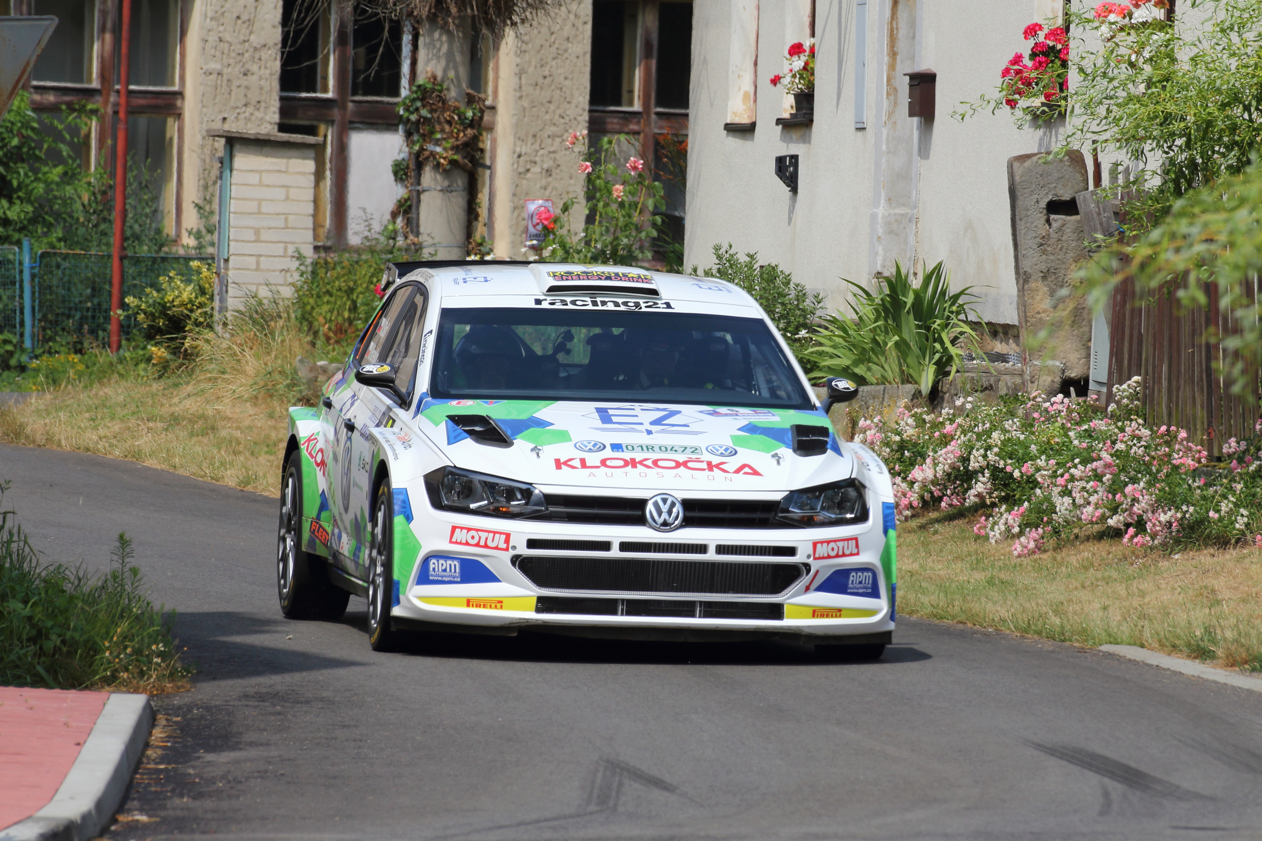 Štajf / Havelková, Volkswagen Polo GTI R5, 2019 Rally Bohemia